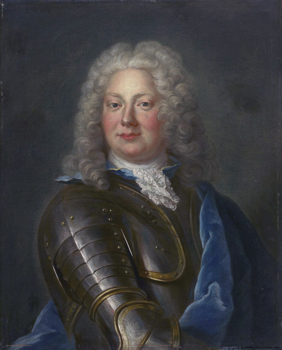 Lord Chamberlain Gustaf Jakob Horn af Rantzien oil on canvas 75 x 60 cm